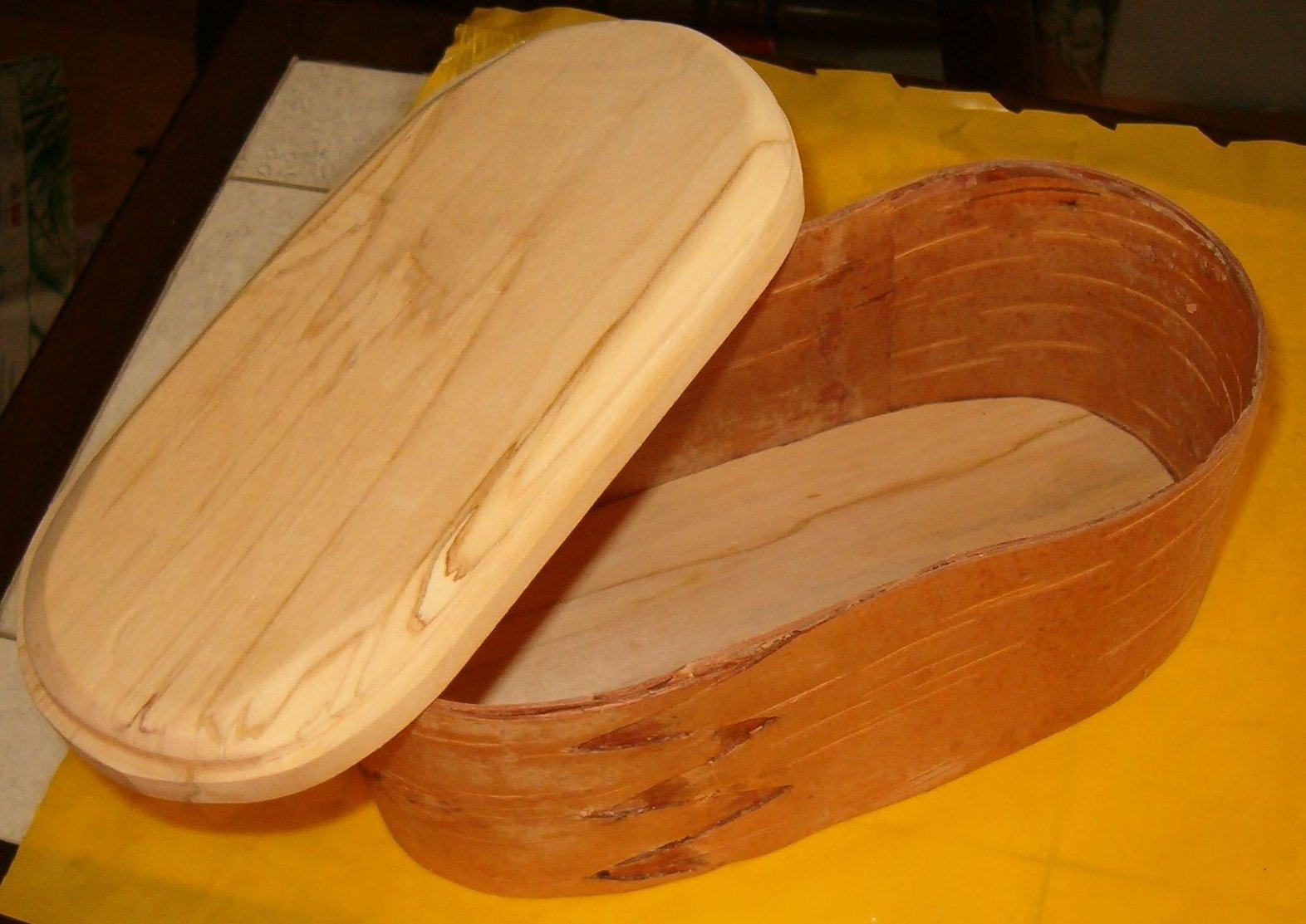 Birchbark box made and photographed by myself. Da: birkebarksæske med låg og bund af birketræ. No: bjørkenever- sveipet øske. Sv: Björknäver-svepask.